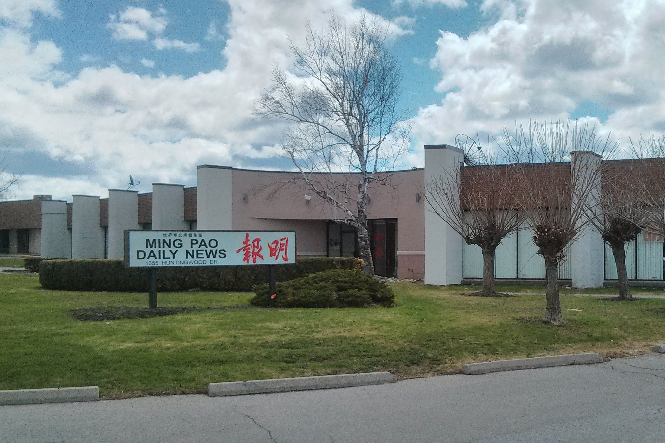 Head office of the Canada East editions of Ming Pao Daily News, in Scarborough, Ontario.